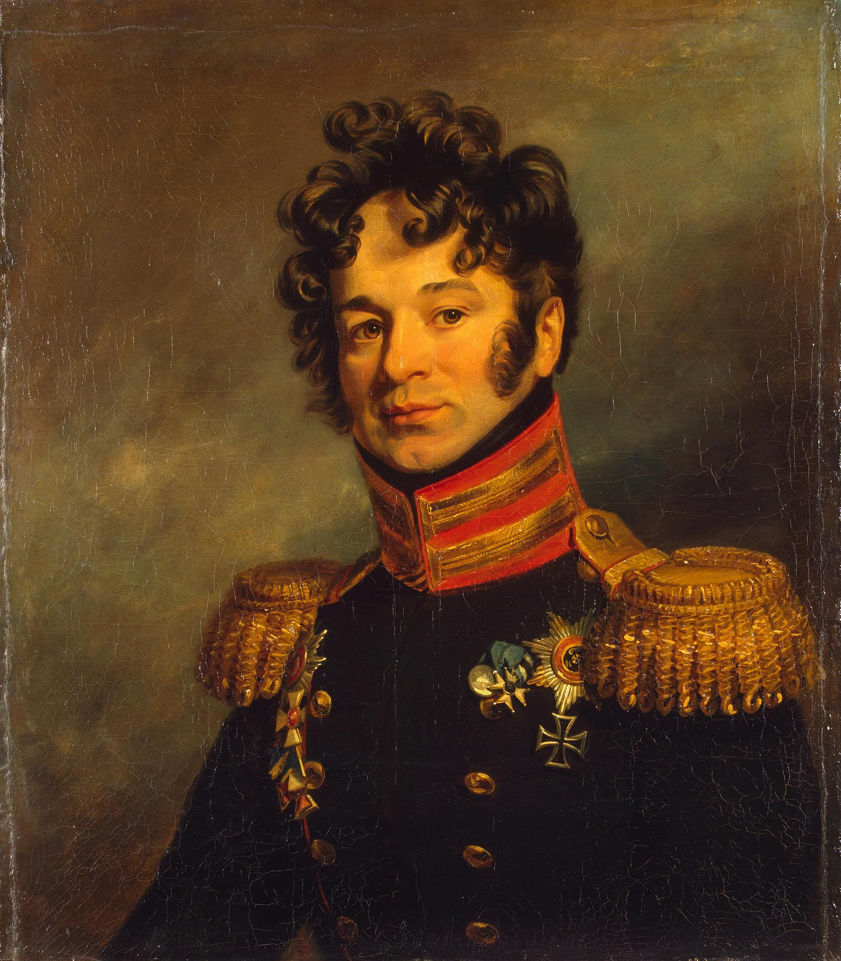 Pyotr Alexandrovich Chicherin 2-nd (10.02.1778 – 27.12.1848) russian general of the cavalry and general-adyutant.